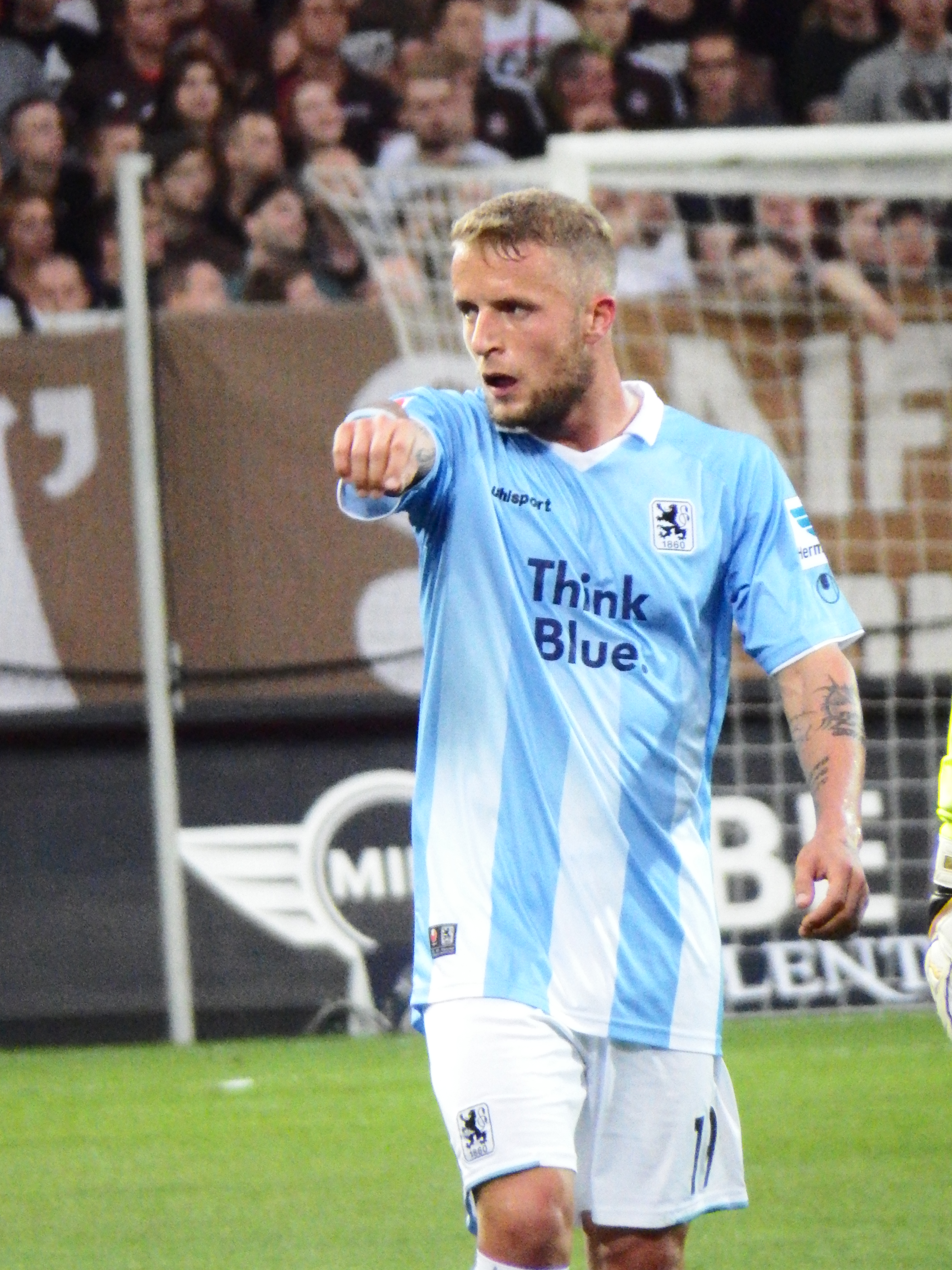 Daniel Adlung as Player of 1860 München